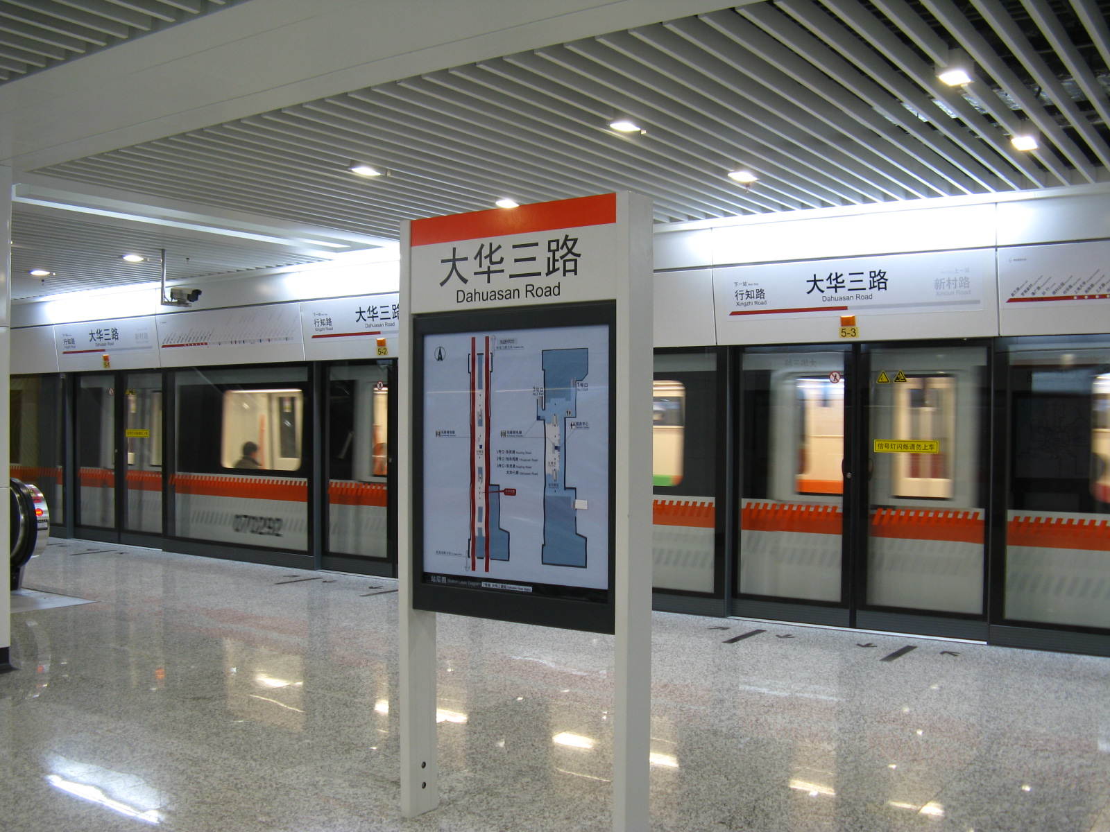 Dahuasan Road Station Line7 Shanghai Metro